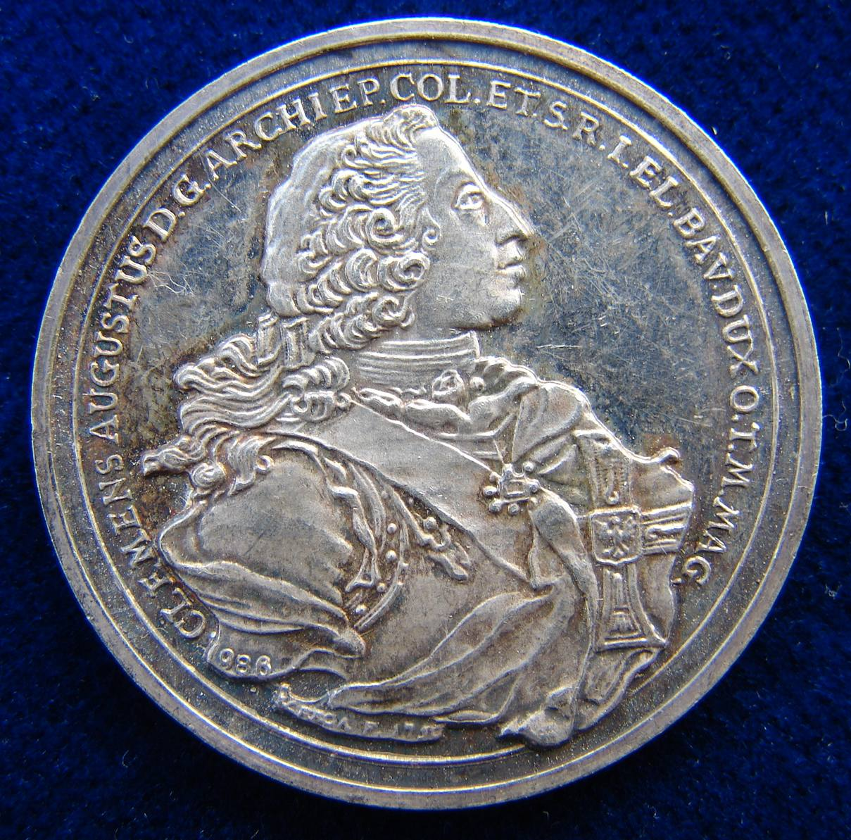 Clemens August von Bayern, 1700 Brüssel - 1761 Koblenz-Ehrenbreitstein. Hochmeister des Deutschen Ordens 1732 - 1761 20th Century Facsimile. D= 26 mm. 6.50 g Ag 0.986 Bust r., surrounding: "CLEMENS AUGUSTUS D. G. ARCHIEP. COL. ET S. R. I. EL. BAV. DUX O. T. MAG" / Chuch, around: "EHEM. SCHLOSSKIRCHE D. HOCH- u. DEUTSCHMEISTER i. MERGENTHEIM". Edge lettering: "BANKHAUS PARTIN & CO". Obverse: Wittelsbach 2022; Dudik 296; Forrer V p. 378. Medallist of the obverse: SCHEGA F. (Franz Andreas Schega), 1711 Rudolphwerth, Krain -1787 Munich, Bavaria, Germany. Condition : Nicely toned EXTREMELY FINE.